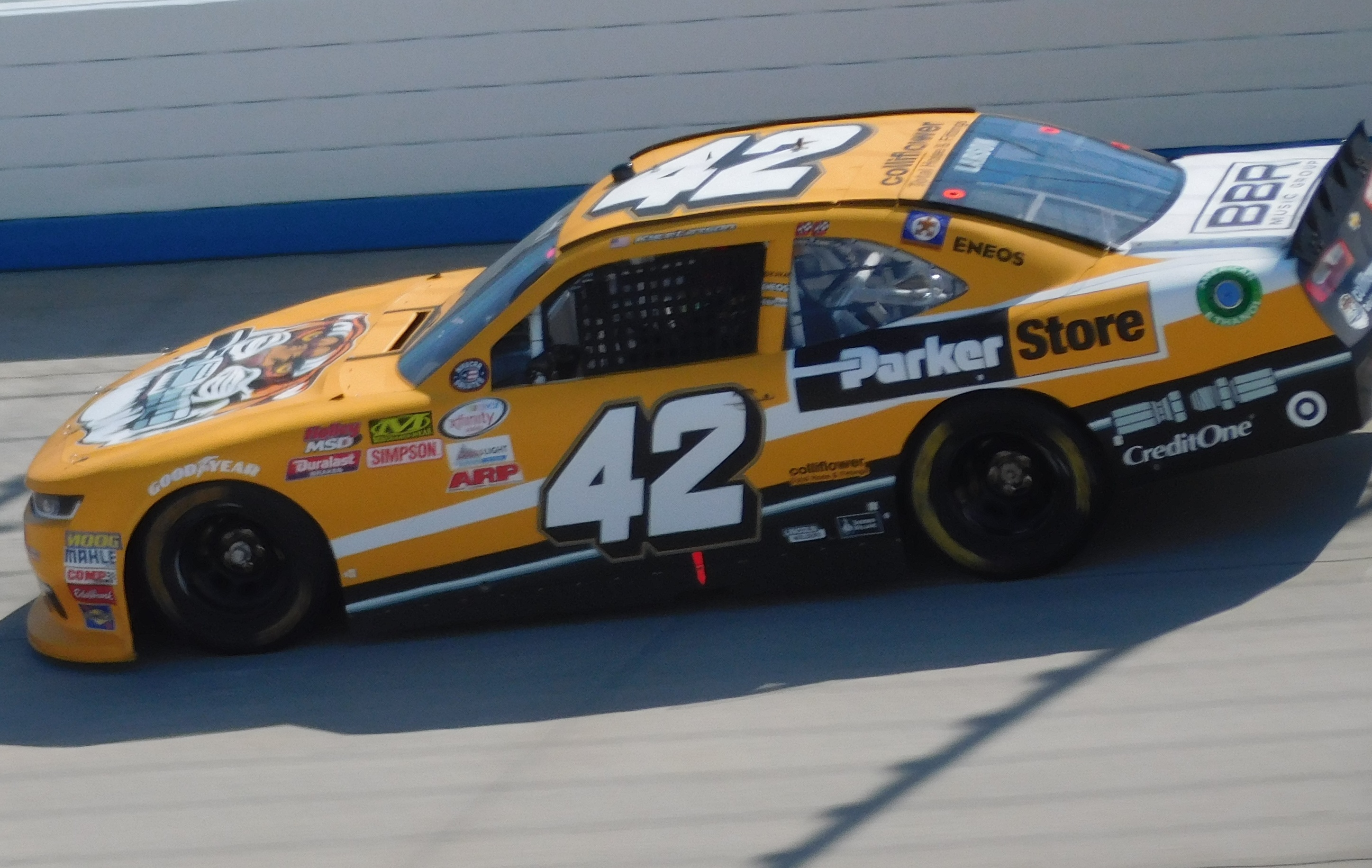 Kyle Larson - the eventual winner of the OneMain Financial 200 at Dover International Speedway in 2017.